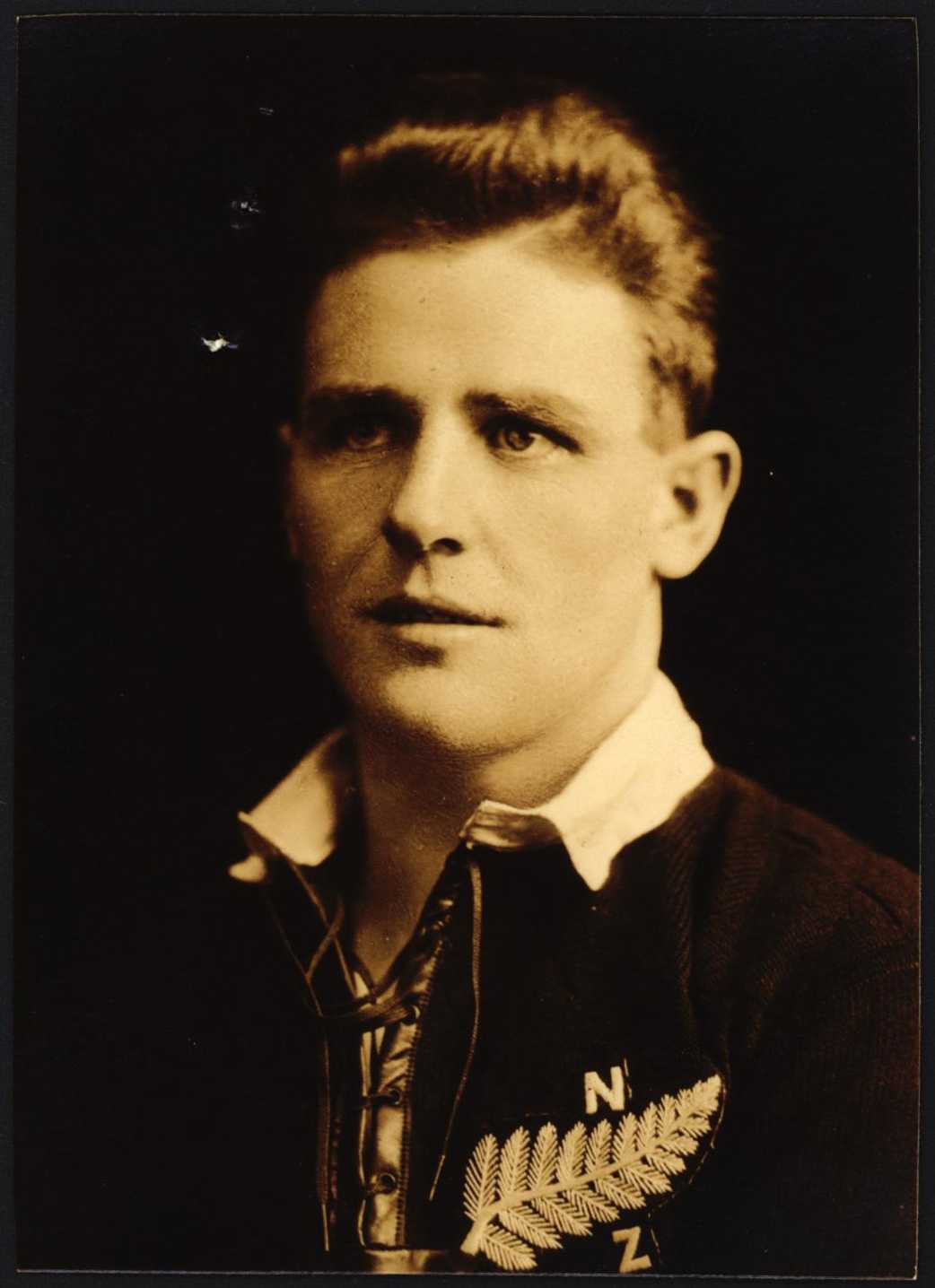 ACGO 8333 IA1 1349 / 15/11/17721 Neil McGregor passport photo (1924)